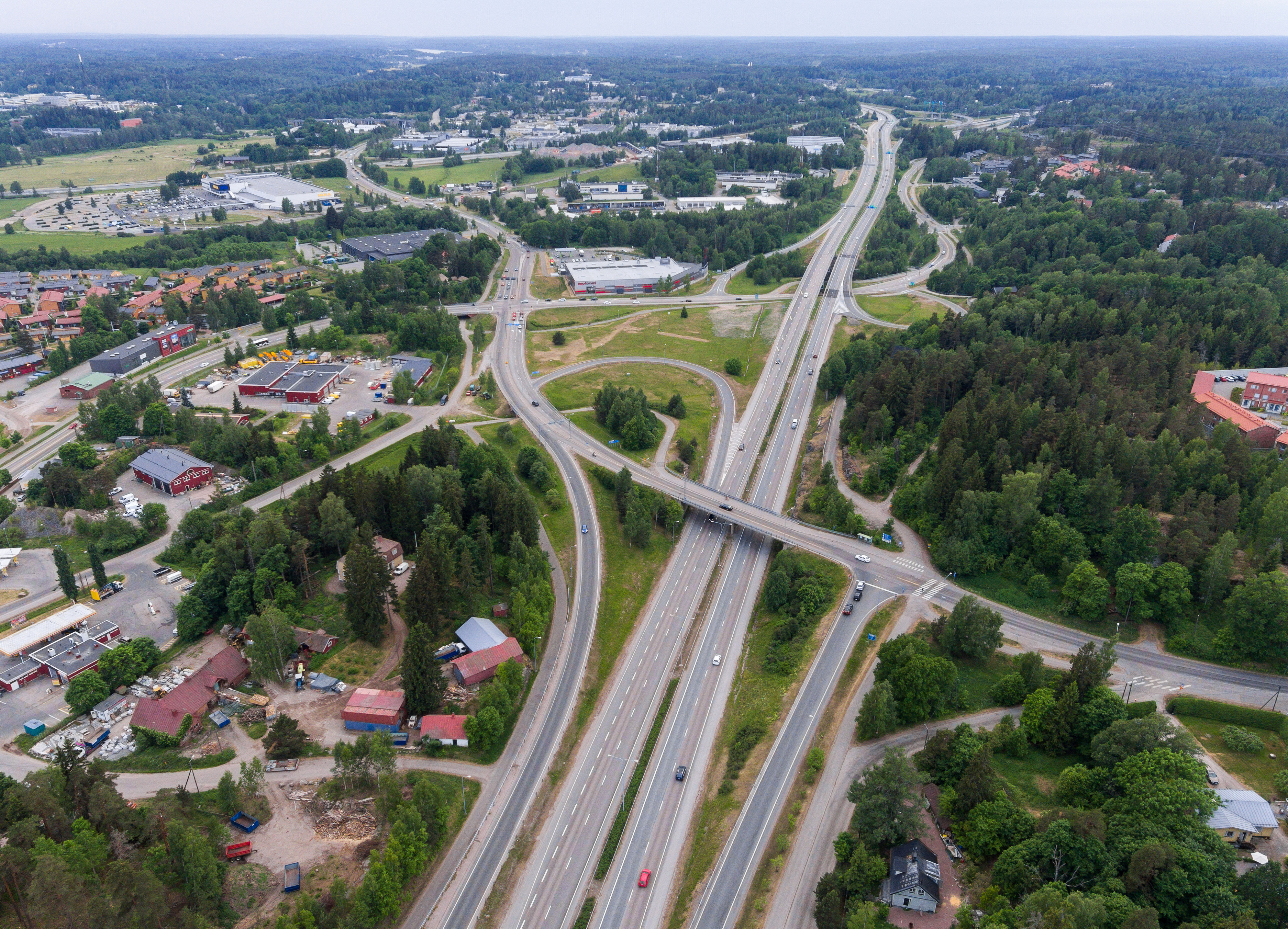 A view of Ring III over Bemböle interchange towards west. Seen on the left is the original Ring III, which is now known as Espoontie (Espoo Road).